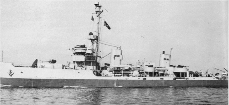 c. 1944 National Archives photo from Allied Escort Ships of World War II by Peter Elliott